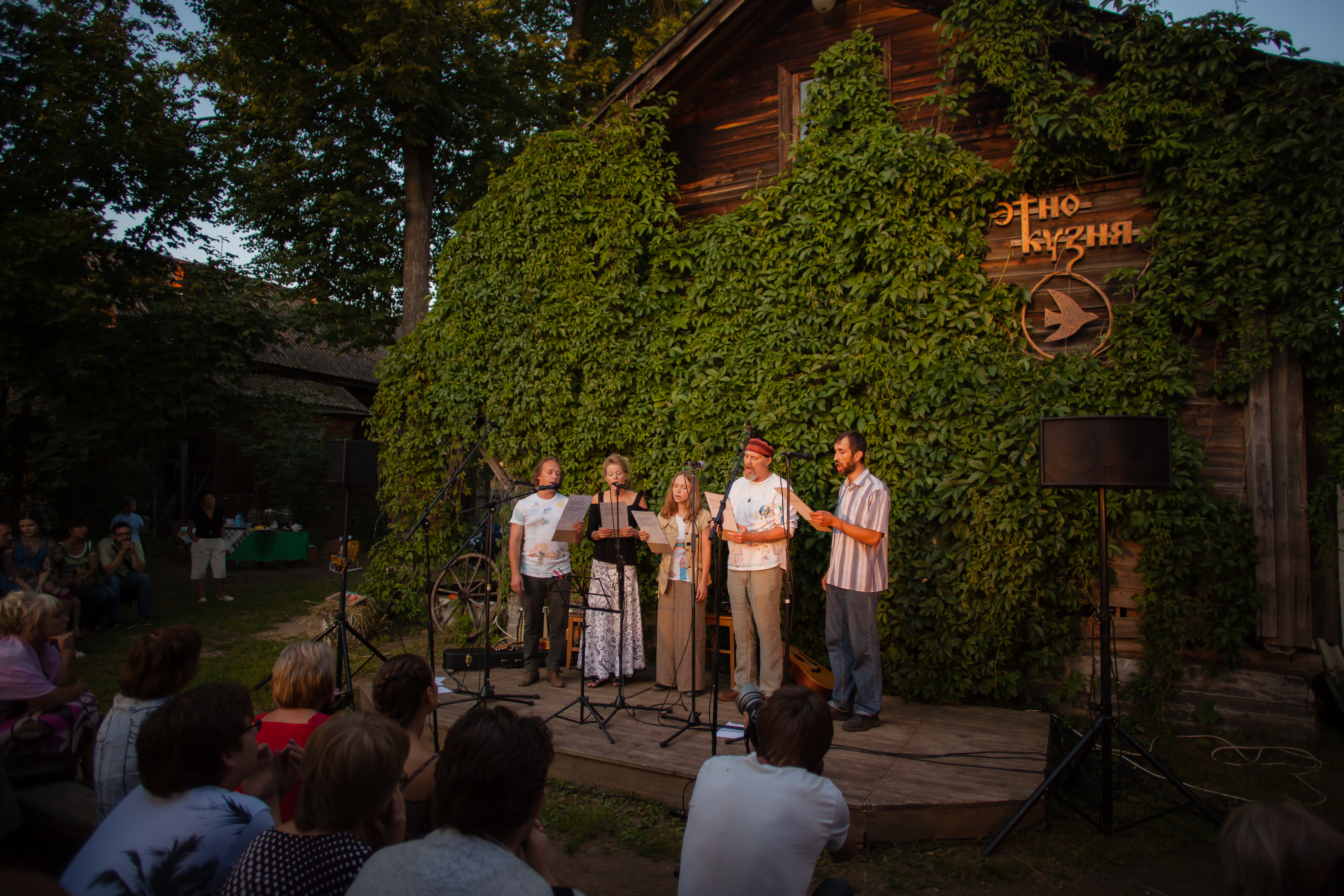 Ethno-Kuznya - multimedia estate